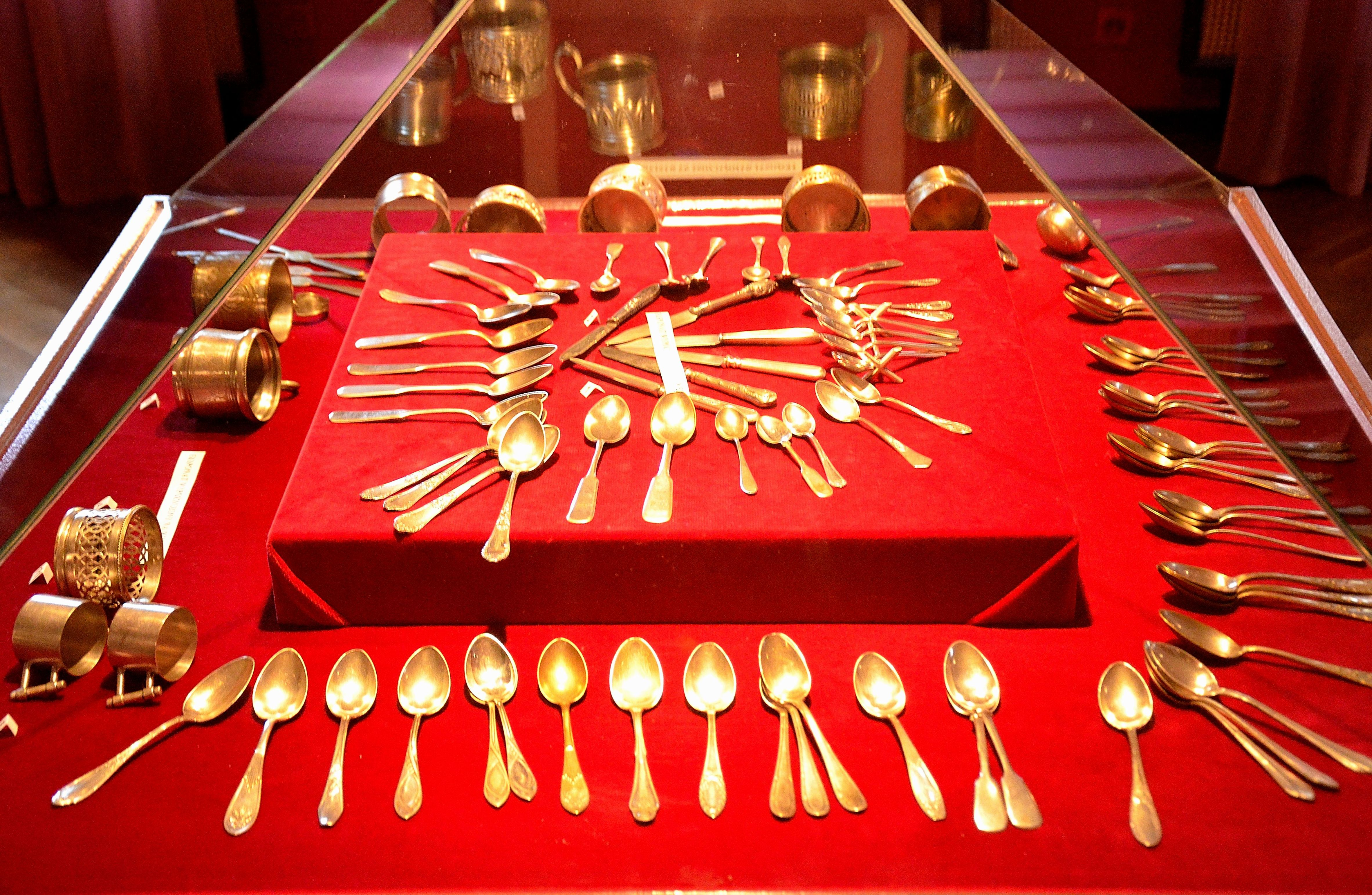 Silver plated cultery in the Wola Museum in Warsaw